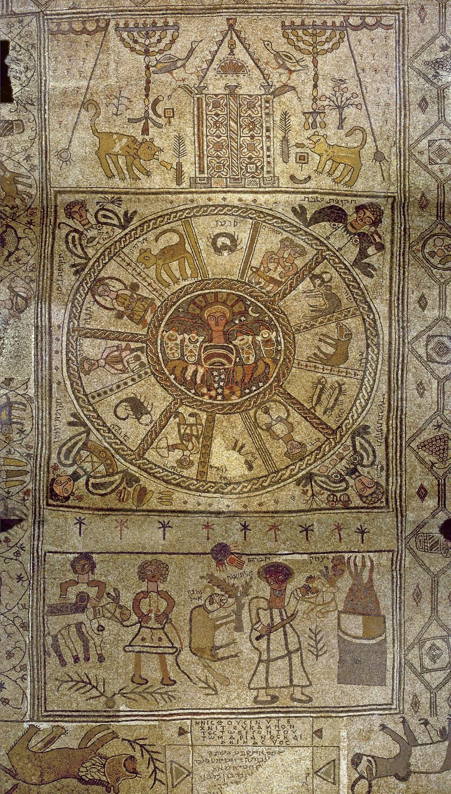 6th century AD mosaic in the Beth Alpha Synagogue.